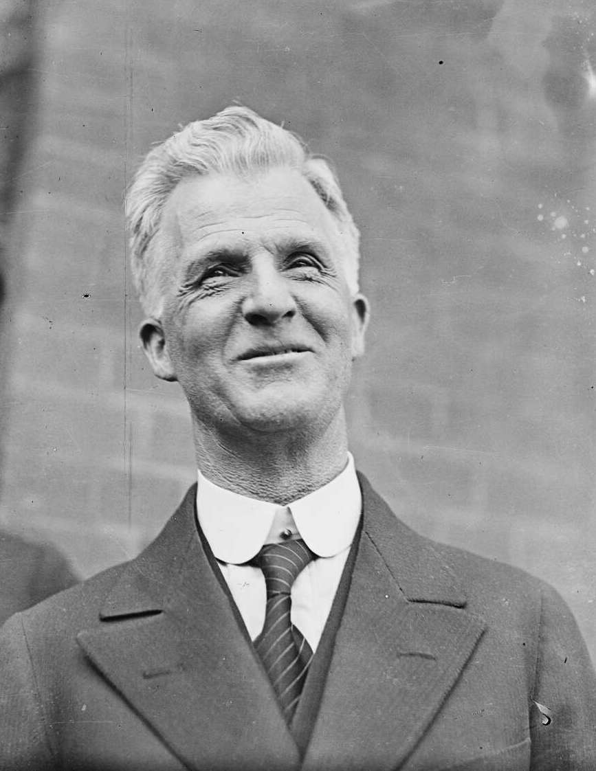 James Scullin, erstwhile Prime Minister of Australia, on the day he relinquished office to his victorious opponent, Joseph Lyons.